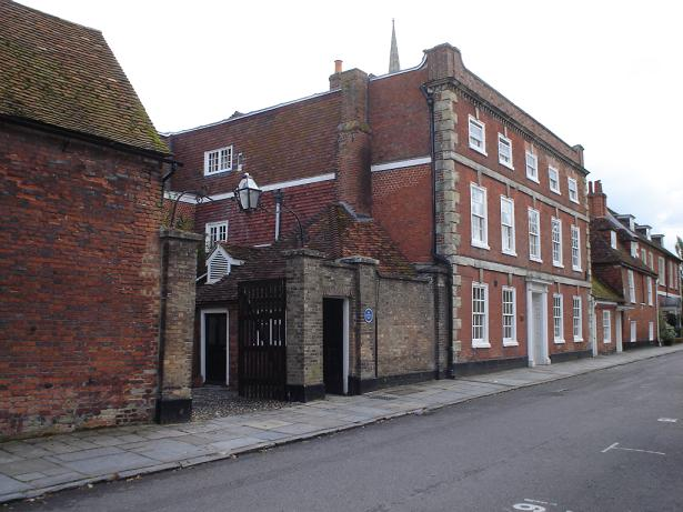 Bishop Wordsworth's School is a Church of England boys' day grammar school located in the centre of Salisbury, Wiltshire, England. This is a part of the school situated in the North Walk of The Cathedral Close.